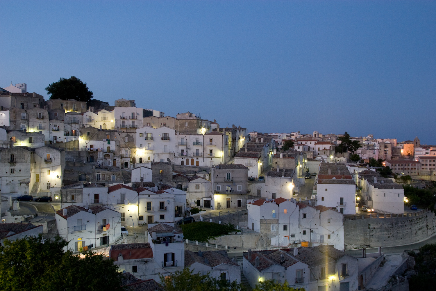 Monte Sant'Angelo